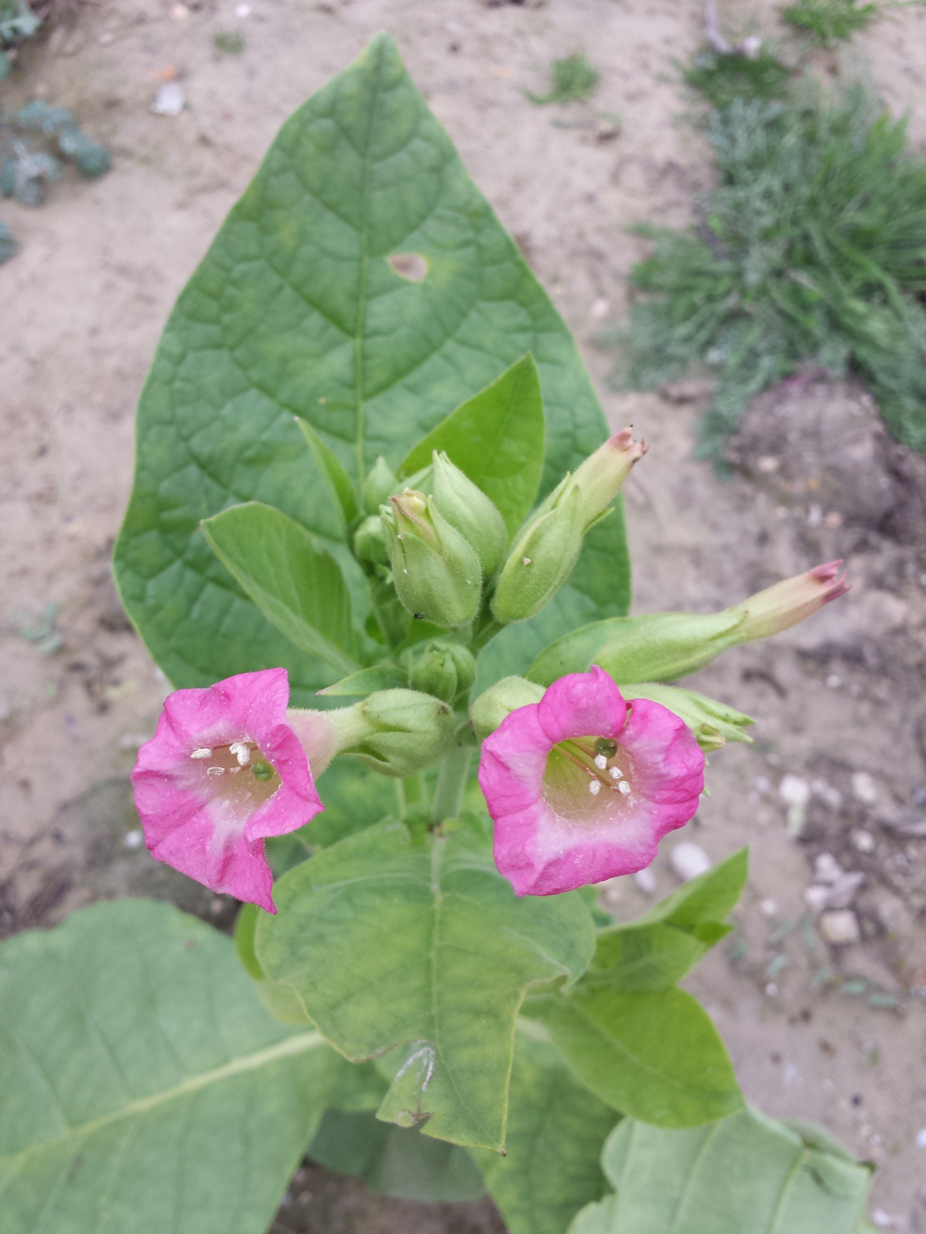 Inflorescence Taxonym: Nicotiana tabacum ss Fischer et al. EfÖLS 2008 ISBN 978-3-85474-187-9 Location: to the north of Hagenbrunn industry area, district Korneuburg, Lower Austria - ca. 175 m a.s.l. Habitat: earth dump